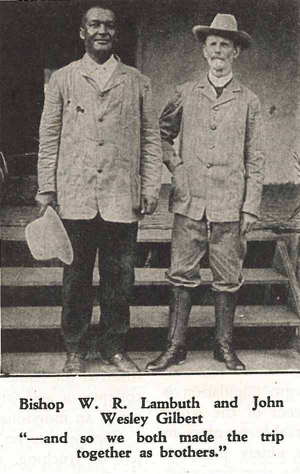 Bishop Walter Russell Lambuth of the Methodist Episcopal Church, South, and John Wesley Gilbert of the Colored Methodist Episcopal Church went on an "interracial" mission to the Belgian Congo. This photograph was likely taken on this mission, sometime between 1911 and 1916.